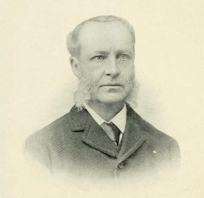 Thomas William Cowan, British beekeeper and writer.